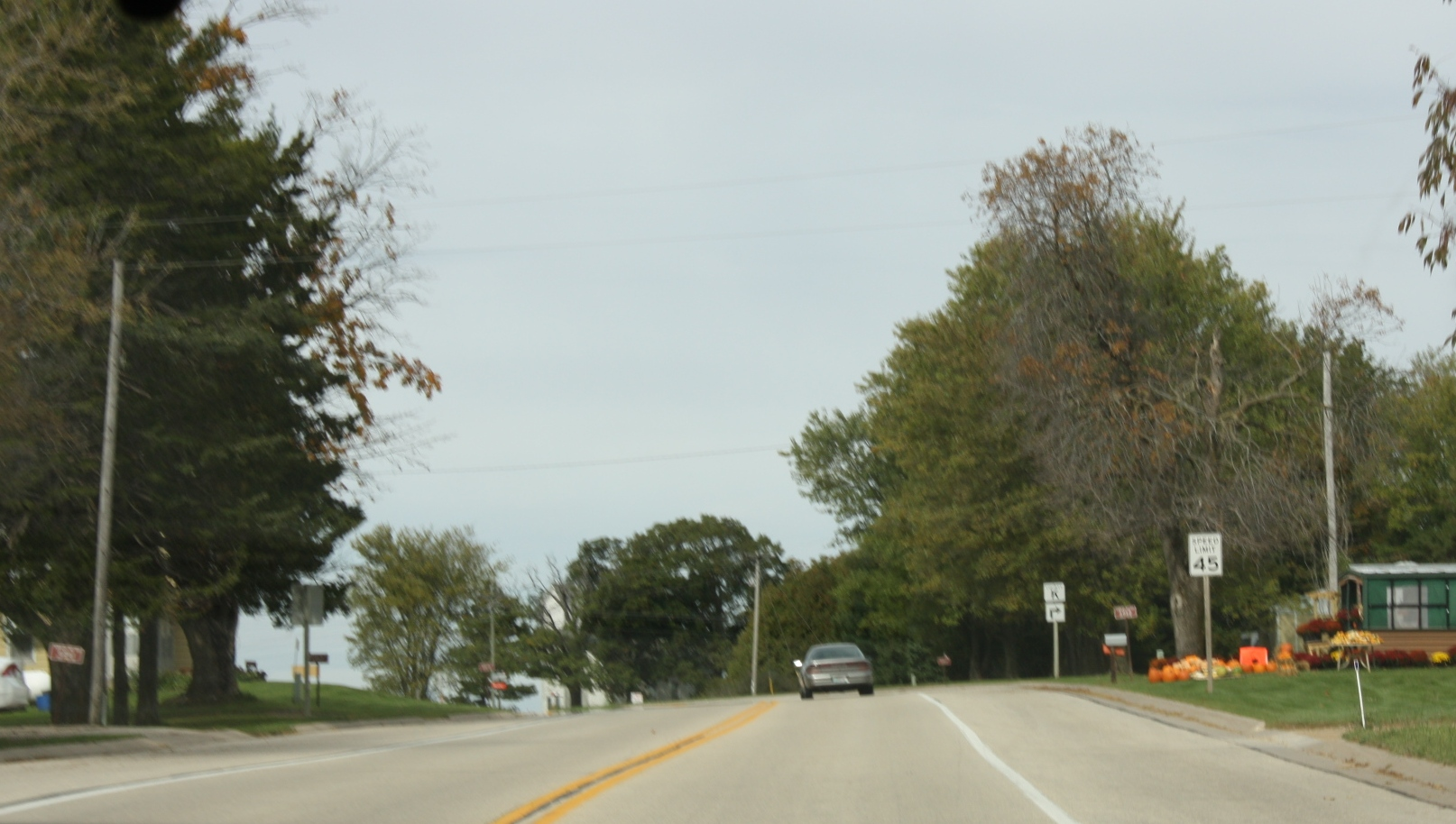 Looking west at downtown Mount Ida (community) along U.S. Route 18.